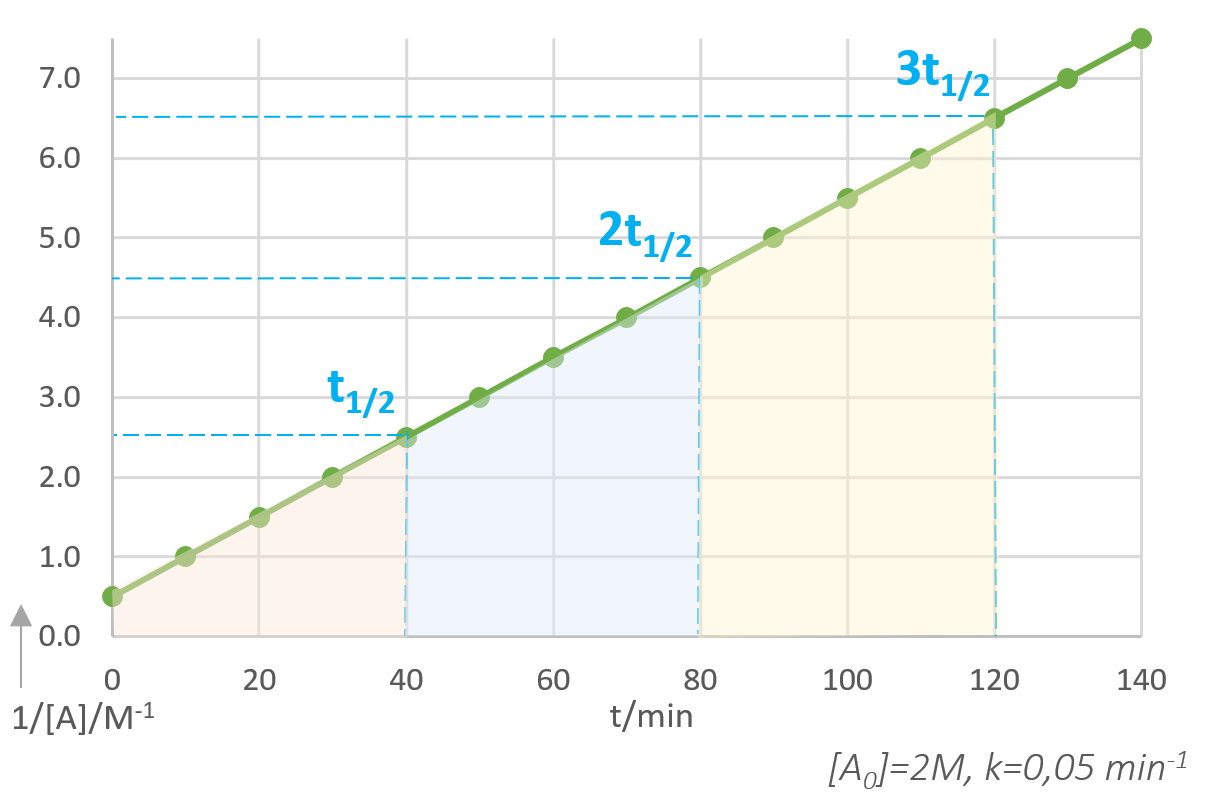 Half-life of zero order reaction.